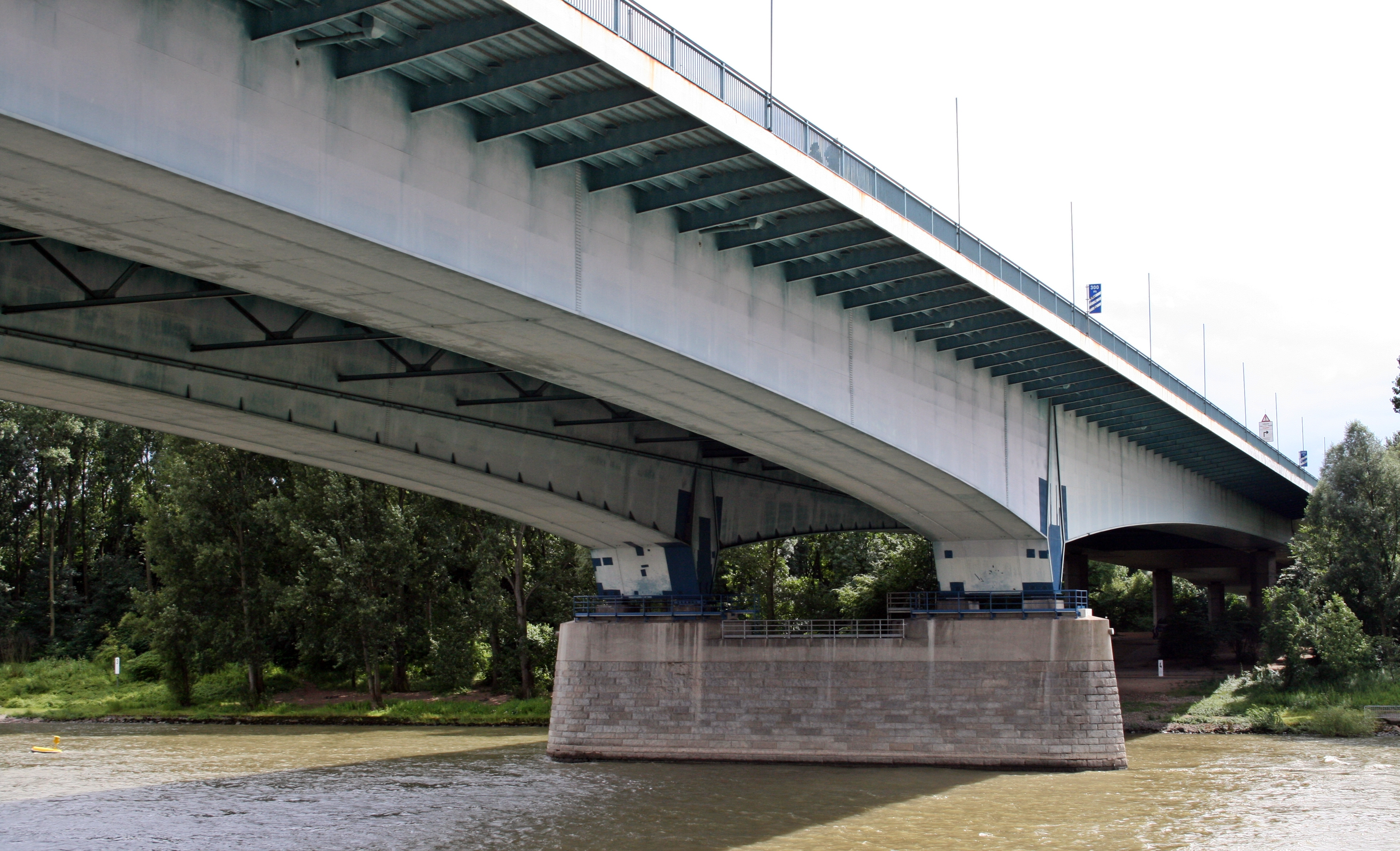 Germany, Bonn: underside of Konrad-Adenauer-Brücke.